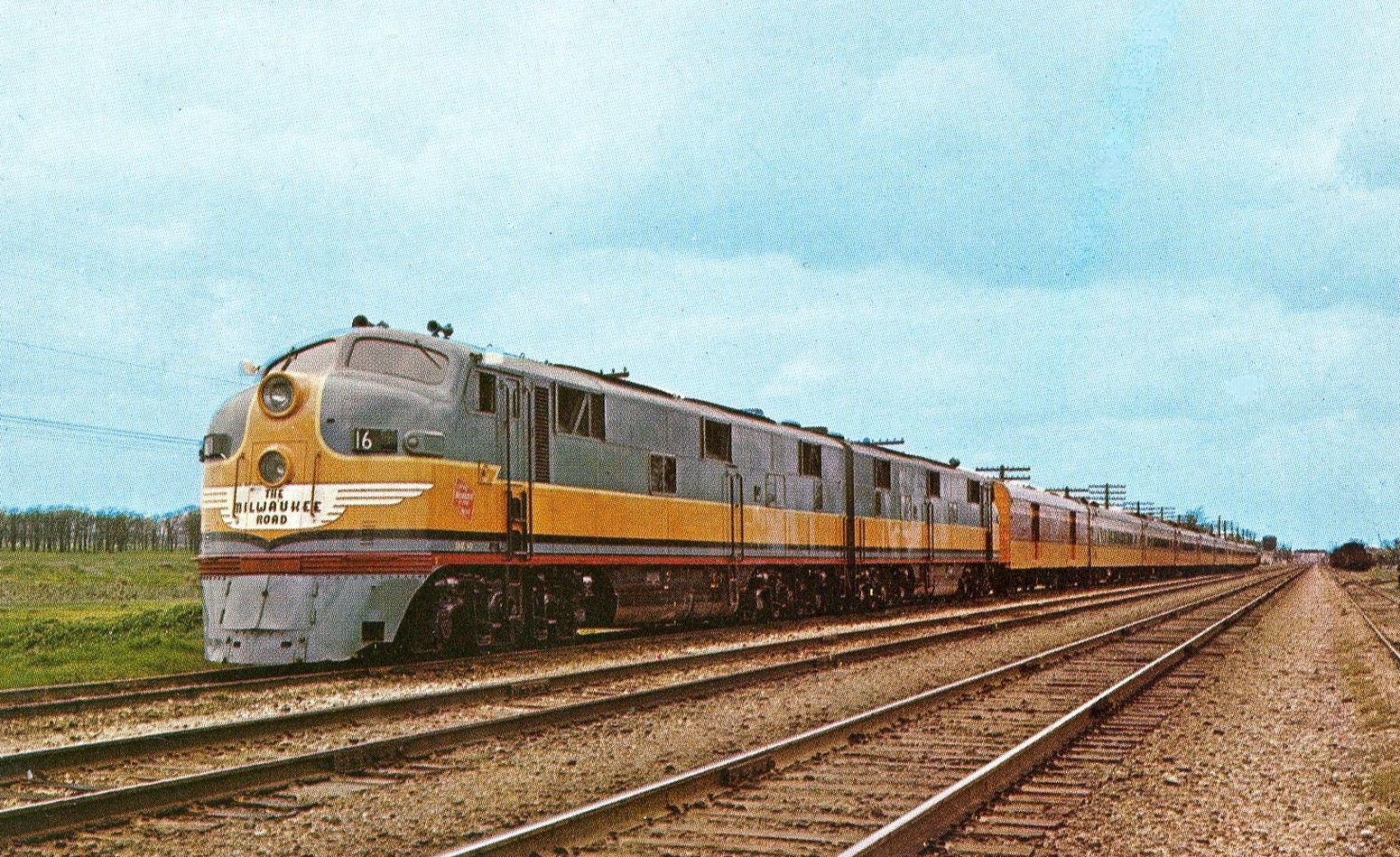 Postcard photo of the Chicago, Milwaukee and St. Paul Railway's "Afternoon Hiawatha" train which traveled from Chicago to Minneapolis.